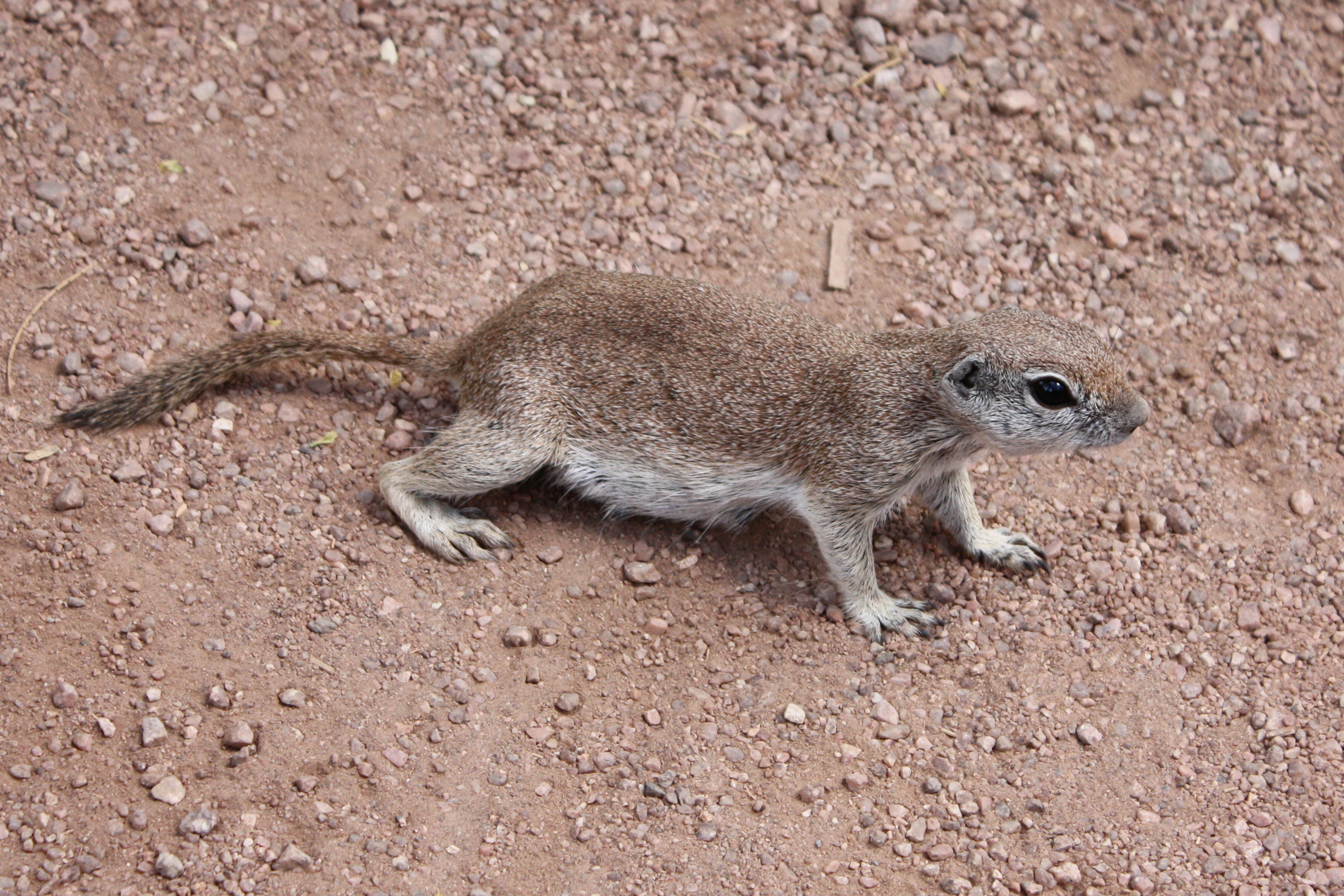 Round-tailed Ground Squirrel (Spermophilus tereticaudus) in Phoenix, Arizona